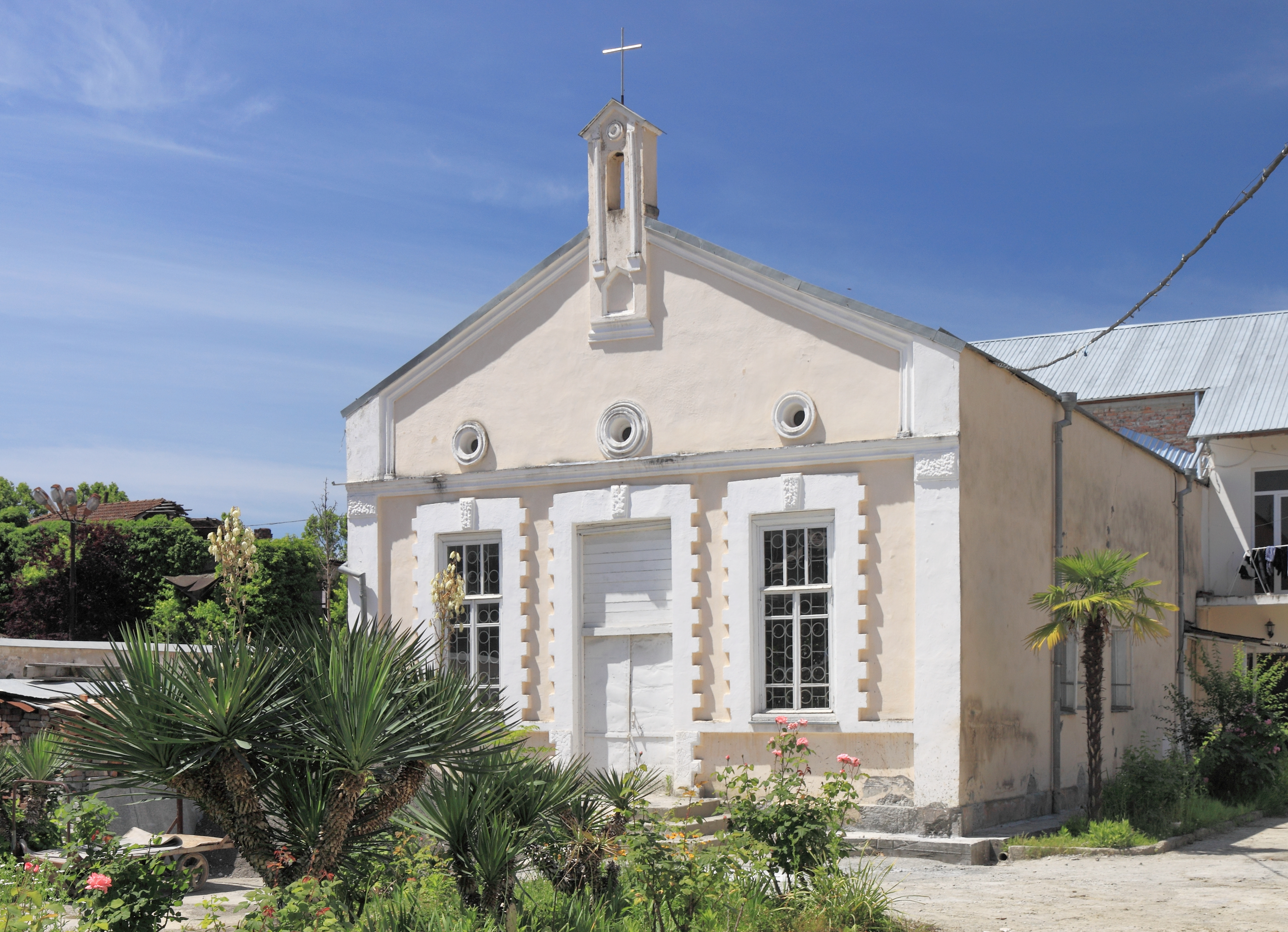 Roman Catholic Church of St. Simon the Zealot. Sukhumi, Abkhazia.